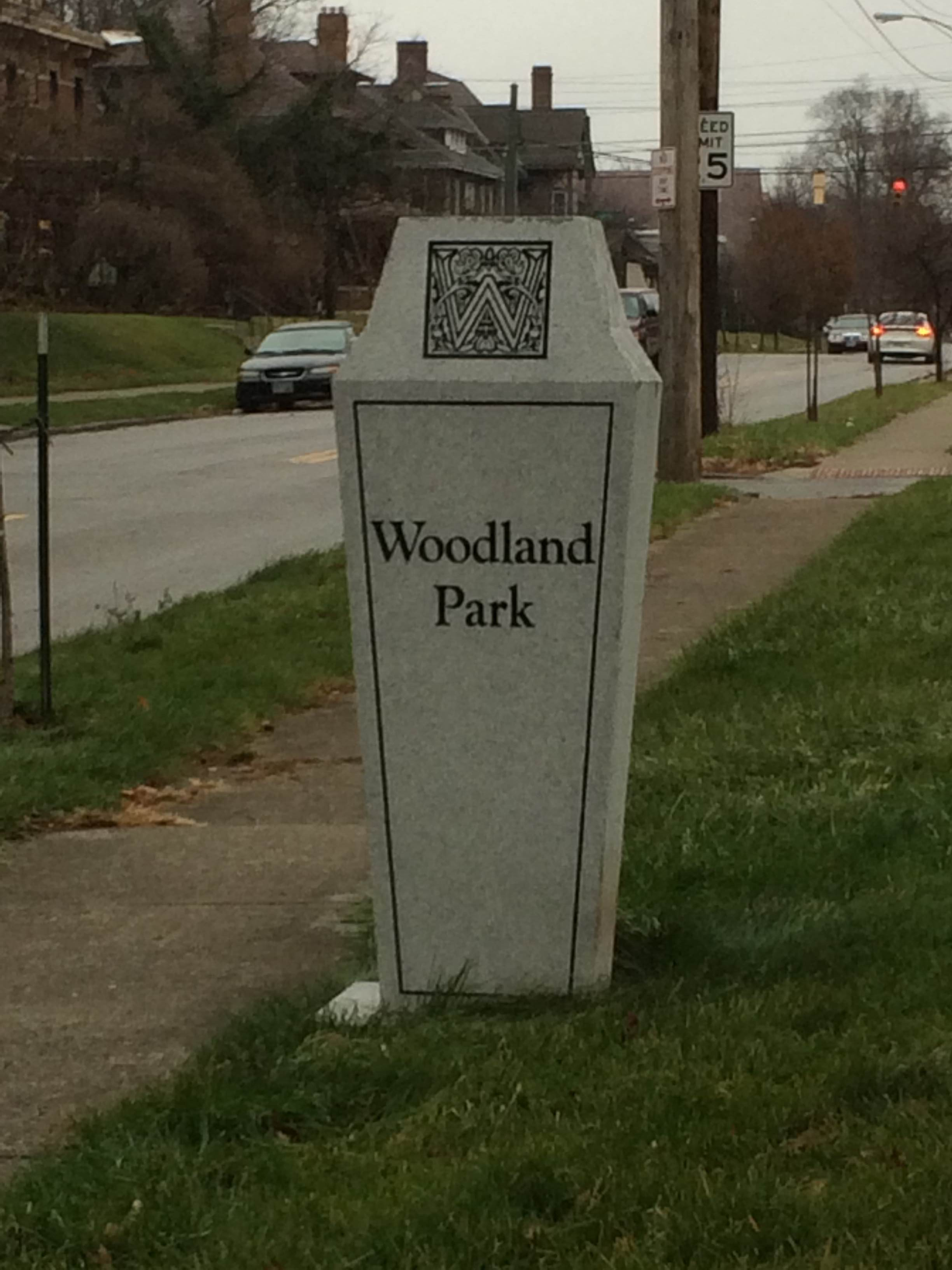 A sign that is displayed at the boundary of the Woodland Park Neighborhood in Columbus, Ohio